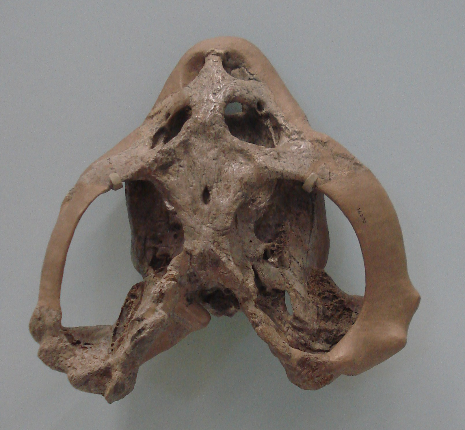 fossil of cyamodus